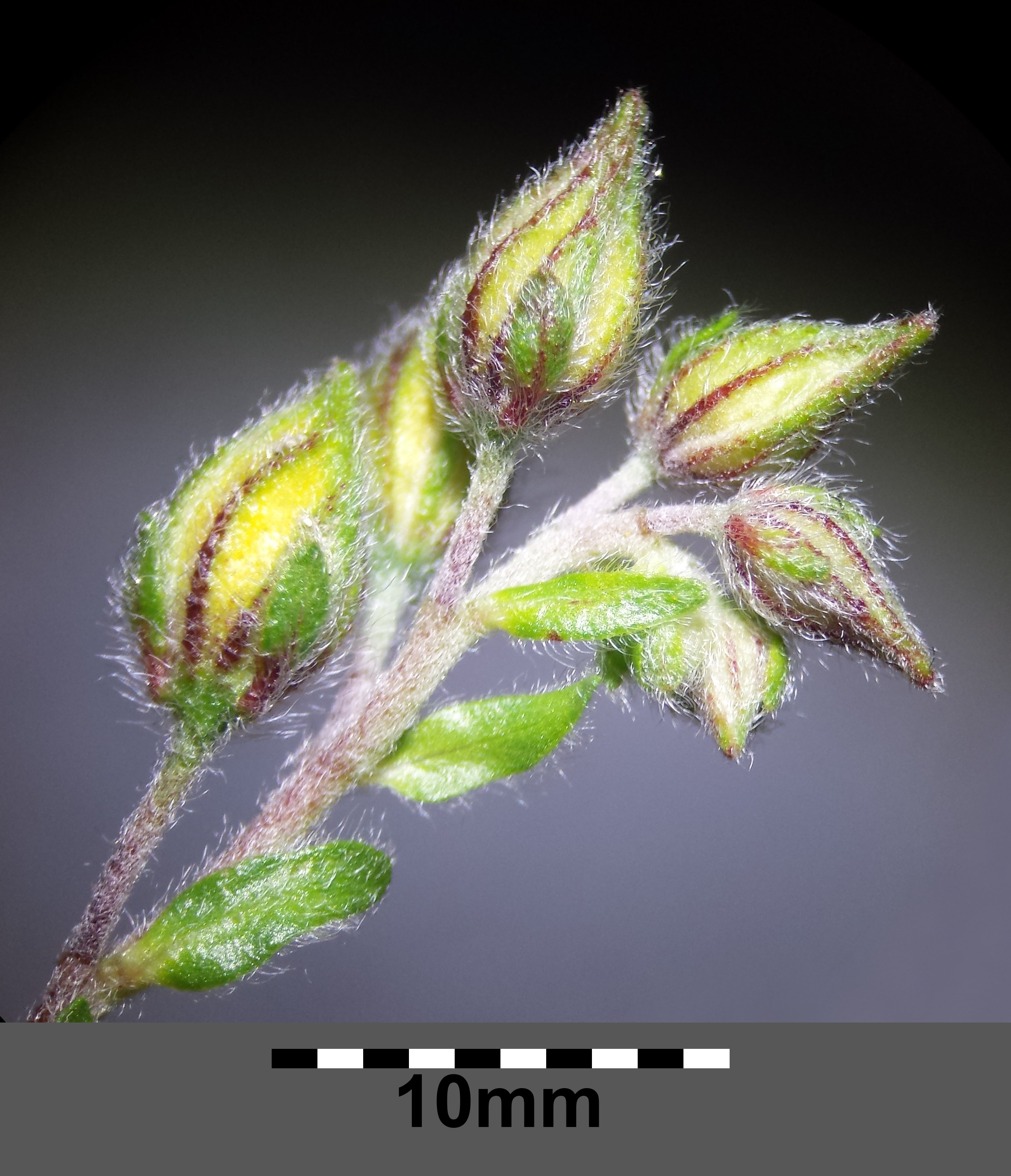 Inflorescence with buds Taxonym: Helianthemum nummularium subsp. obscurum ss Fischer et al. EfÖLS 2008 ISBN 978-3-85474-187-9 Location: between Michelberg and Steinberg near Niederhollabrunn, district Korneuburg, Lower Austria - ca. 300 m a.s.l. Habitat: wayside/slope